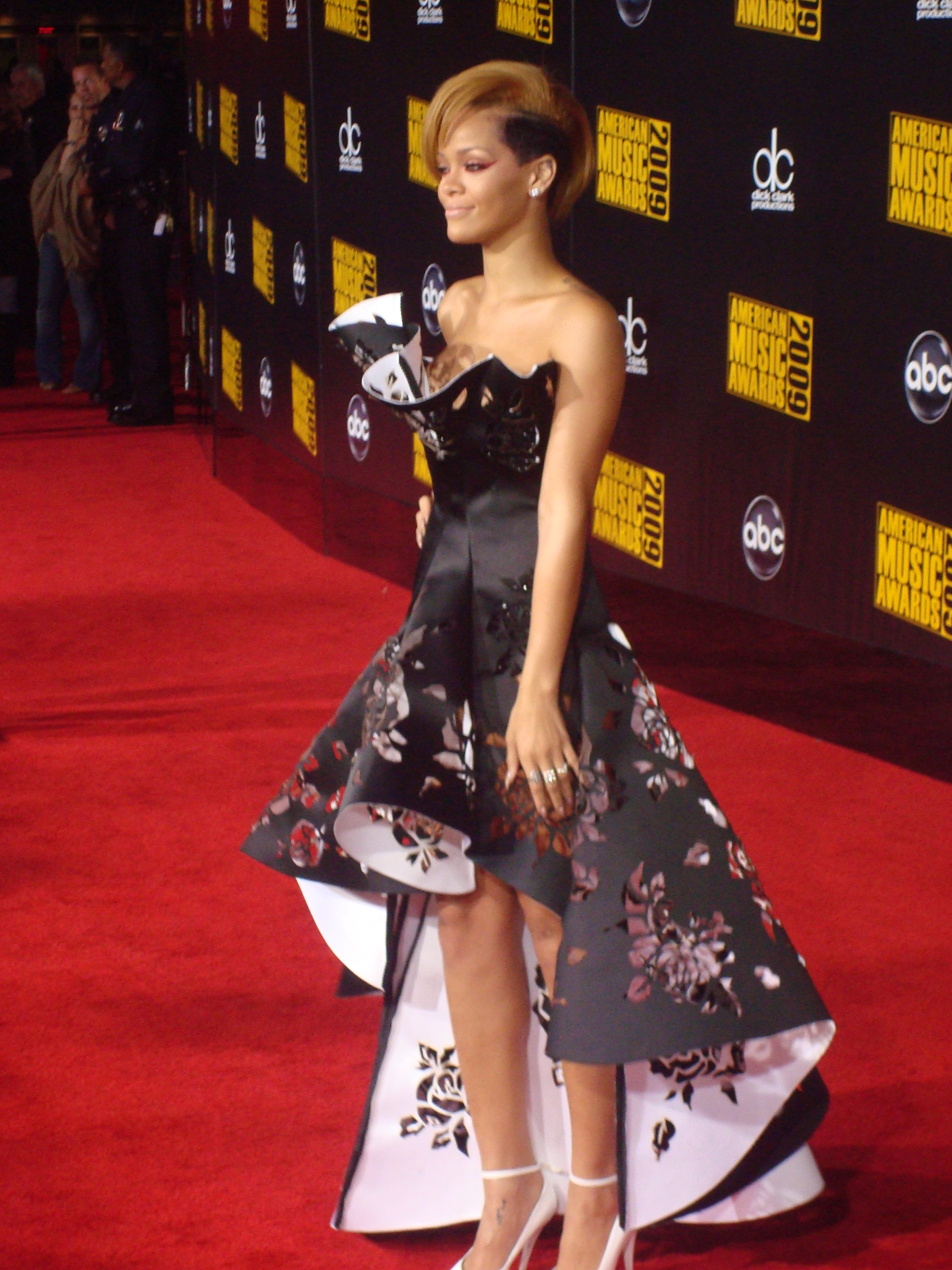 Rihanna at the 2009 American Music Award Red Carpet